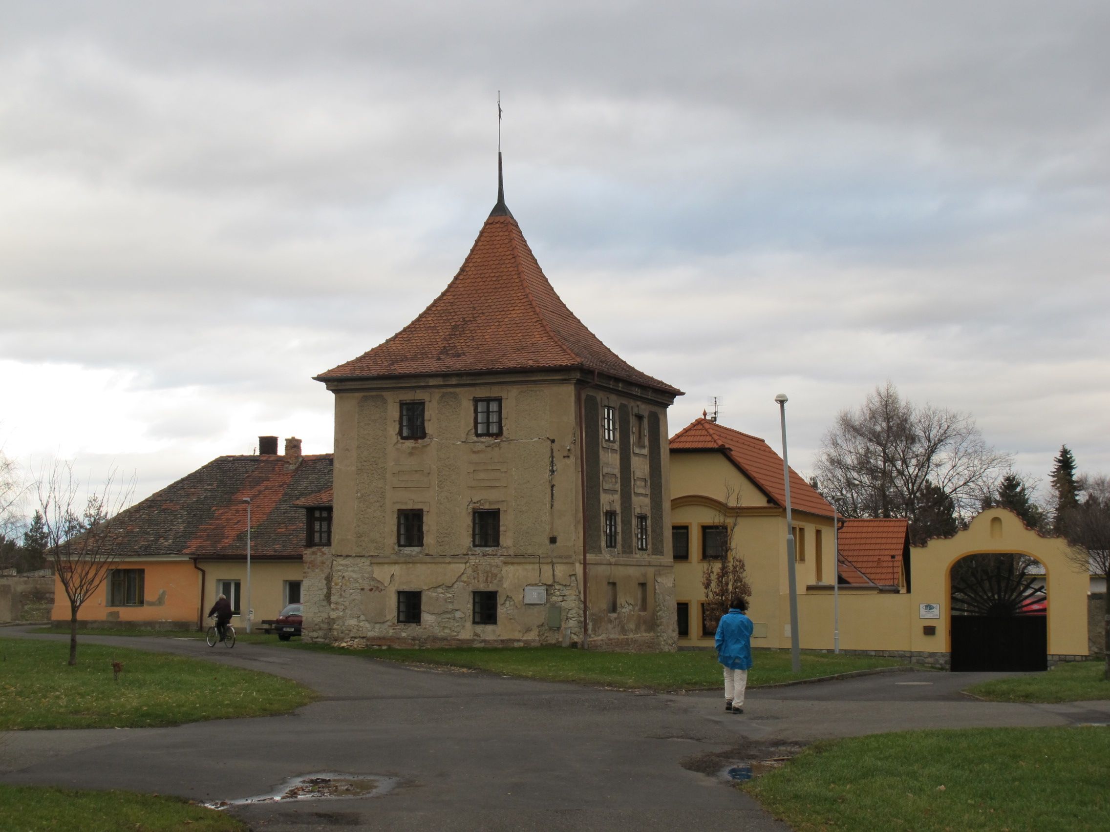 Water house from 18th century in Cítoliby (Czech Republic)